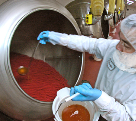 Marich Panning Production